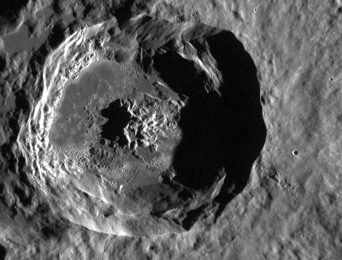 NASA image acquired October 28, 2011 This stunning crater, now called Balanchine, lies within the Caloris basin. Its floor provides another example of the beautiful "hollows" found on Mercury and has an etched appearance similar to that found in the crater Tyagaraja. This image was acquired as a high-resolution targeted observation. Targeted observations are images of a small area on Mercury's surface at resolutions much higher than the 250-meter/pixel (820 feet/pixel) morphology base map or the 1-kilometer/pixel (0.6 miles/pixel) color base map. It is not possible to cover all of Mercury's surface at this high resolution during MESSENGER's one-year mission, but several areas of high scientific interest are generally imaged in this mode each week. The MESSENGER spacecraft is the first ever to orbit the planet Mercury, and the spacecraft's seven scientific instruments and radio science investigation are unraveling the history and evolution of the Solar System's innermost planet. Visit the Why Mercury? section of this website to learn more about the key science questions that the MESSENGER mission is addressing. During the one-year primary mission, MDIS is scheduled to acquire more than 75,000 images in support of MESSENGER's science goals. Credit: NASA/Johns Hopkins University Applied Physics Laboratory/Carnegie Institution of Washington NASA image use policy